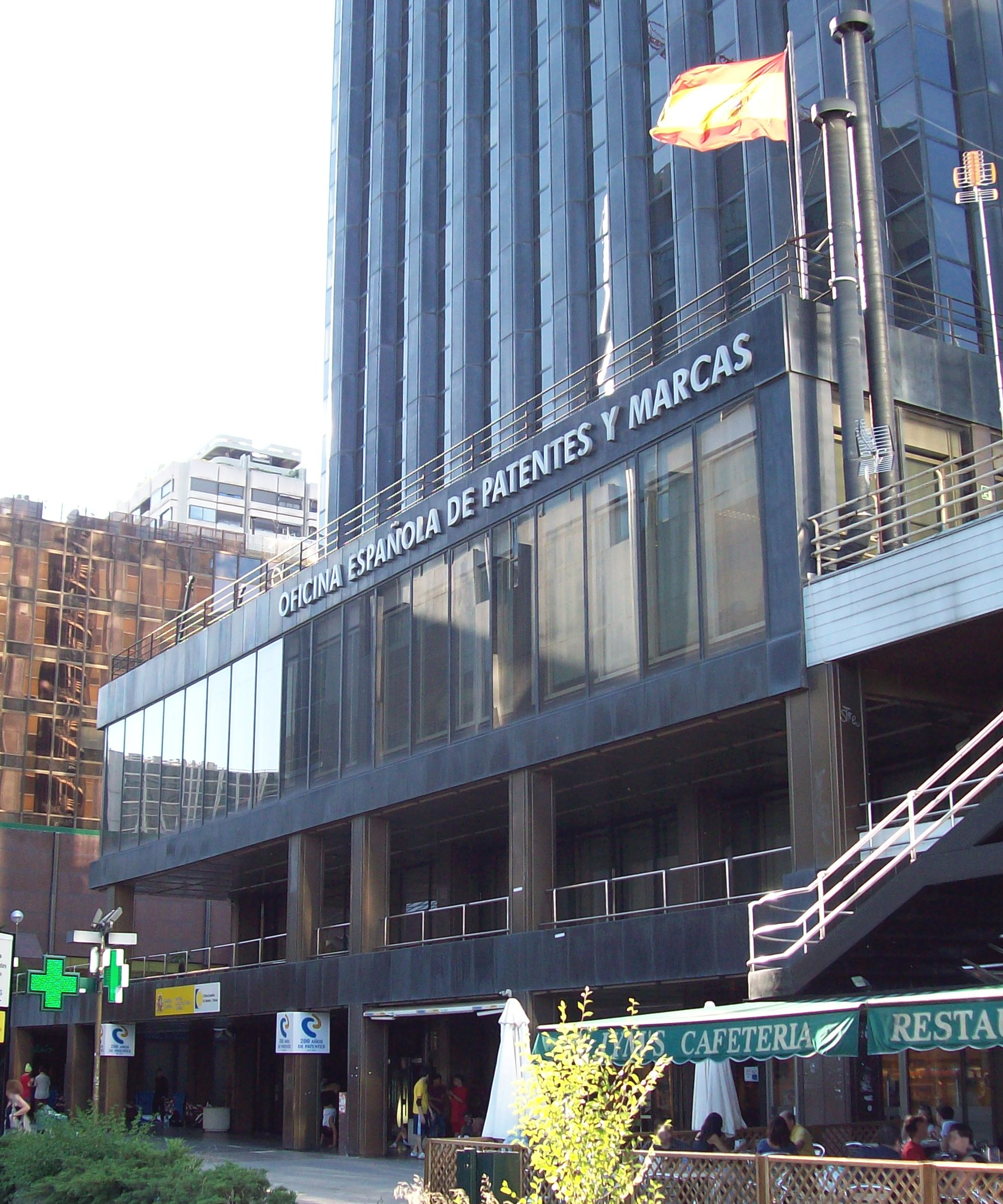 Façade of the Spanish Patent and Trademark Office, at 75 Paseo de la Castellana (avenue) in Chamberí district in Madrid.